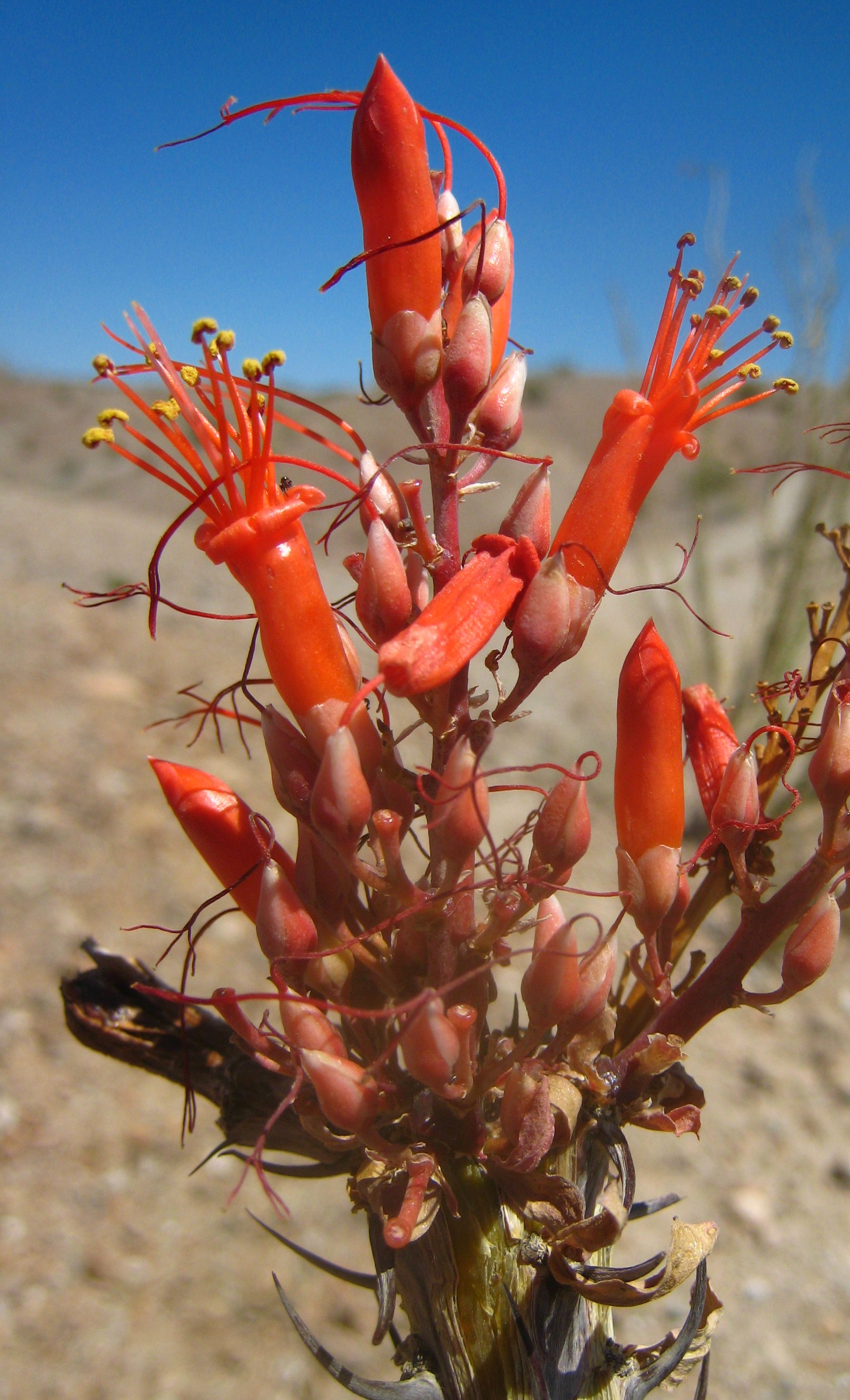 Close up shot of some Ocotillo (Fouquieria splendens) blooms, at Anzo-Borrego Desert State Park, CA, USA.